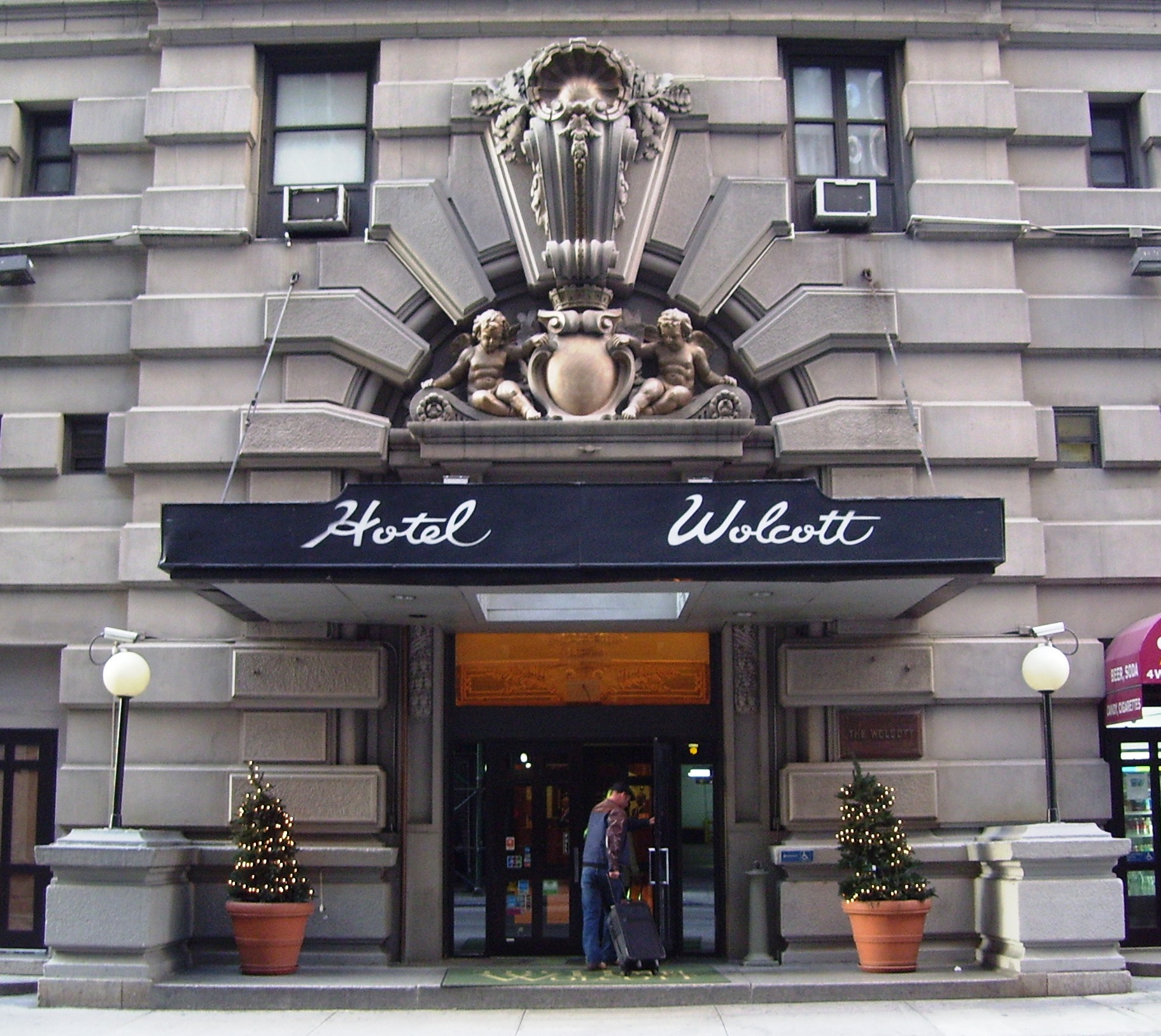 The entrance to the Hotel Wolcott at 4 West 31st Street in Manhattan, New York City. The hotel was built in 1902-1904 and was designed in the Beaux-Arts style by John H. Duncan. It was designated a New York City Landmark on December 20, 2011. (Source: NYCLPC Designation Report)